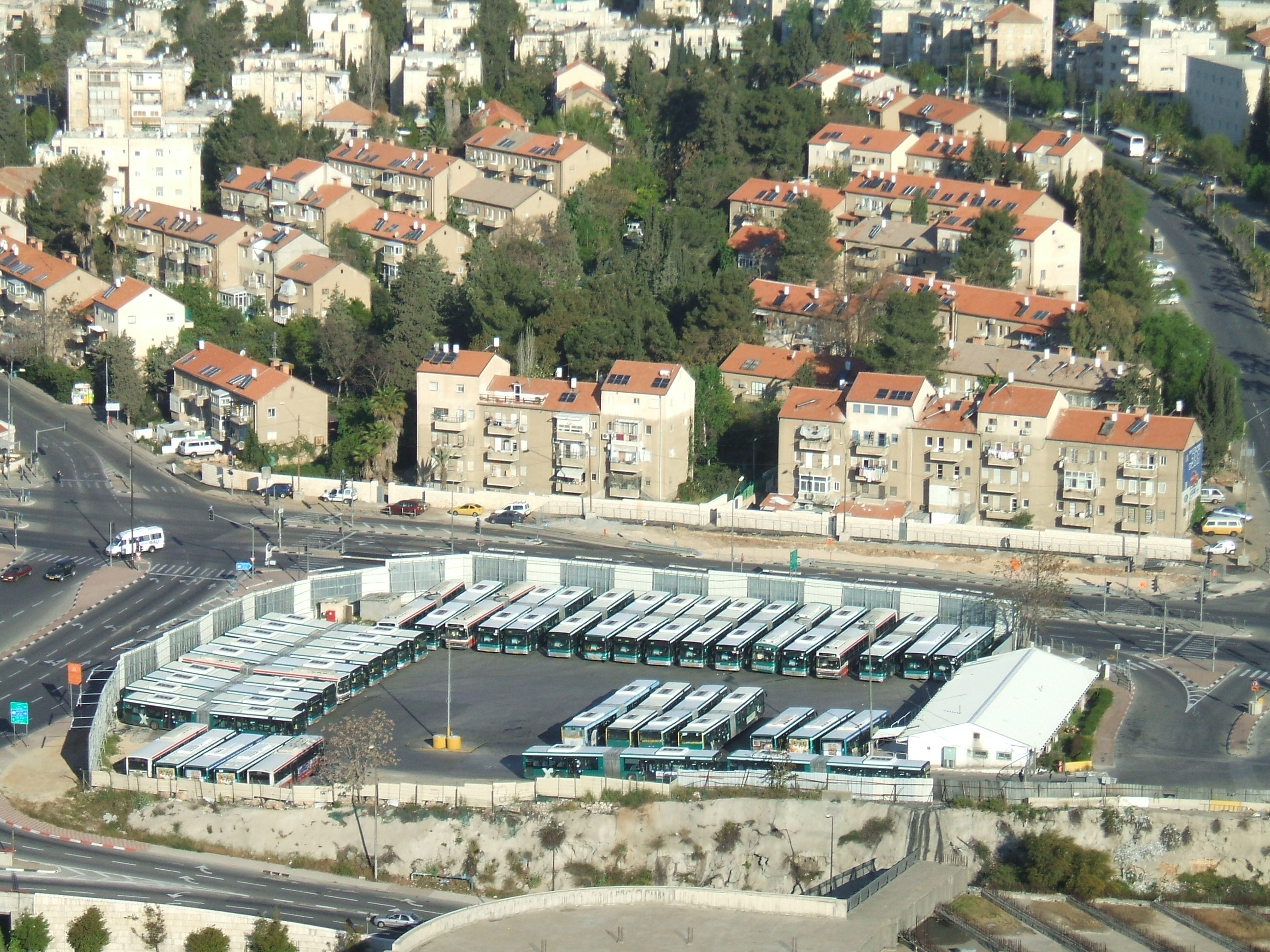 "Egged" bus parking lot, Herzl st. Jerusalem